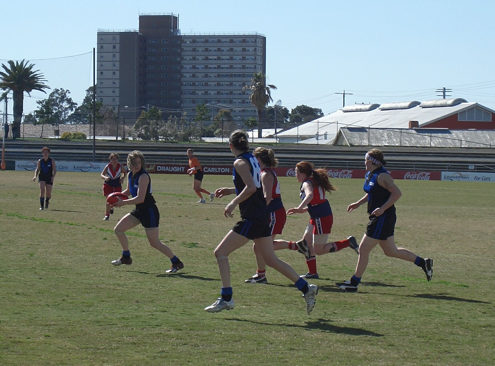 Taken at the Grand Final of the Victorian Women's Football League, Division 1 Reserves. Melbourne University Mugars (black & blue) def. Darebin Falcons.